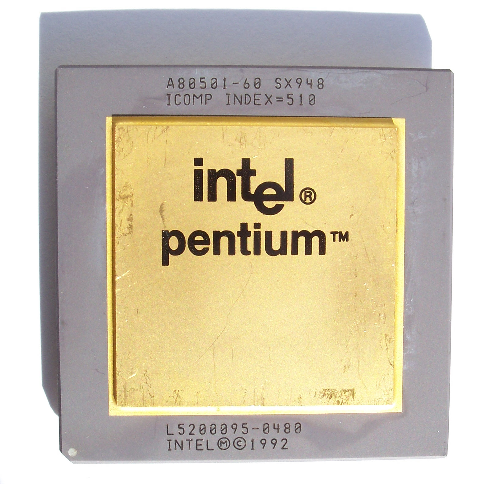 Pentium 60 SX948 front with gold heat-spreader